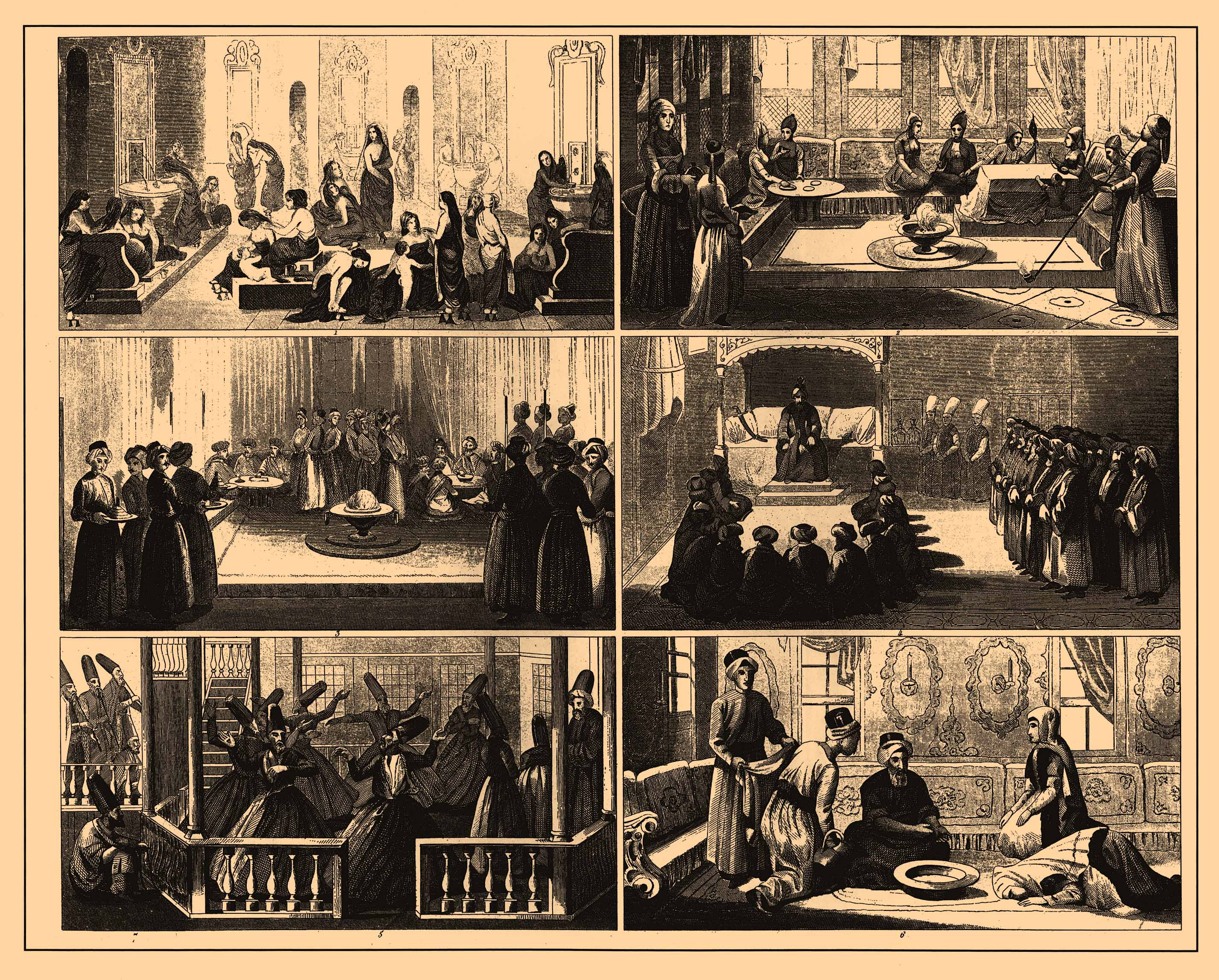 Illustration from Brockhaus and Efron Encyclopedic Dictionary (1890—1907)